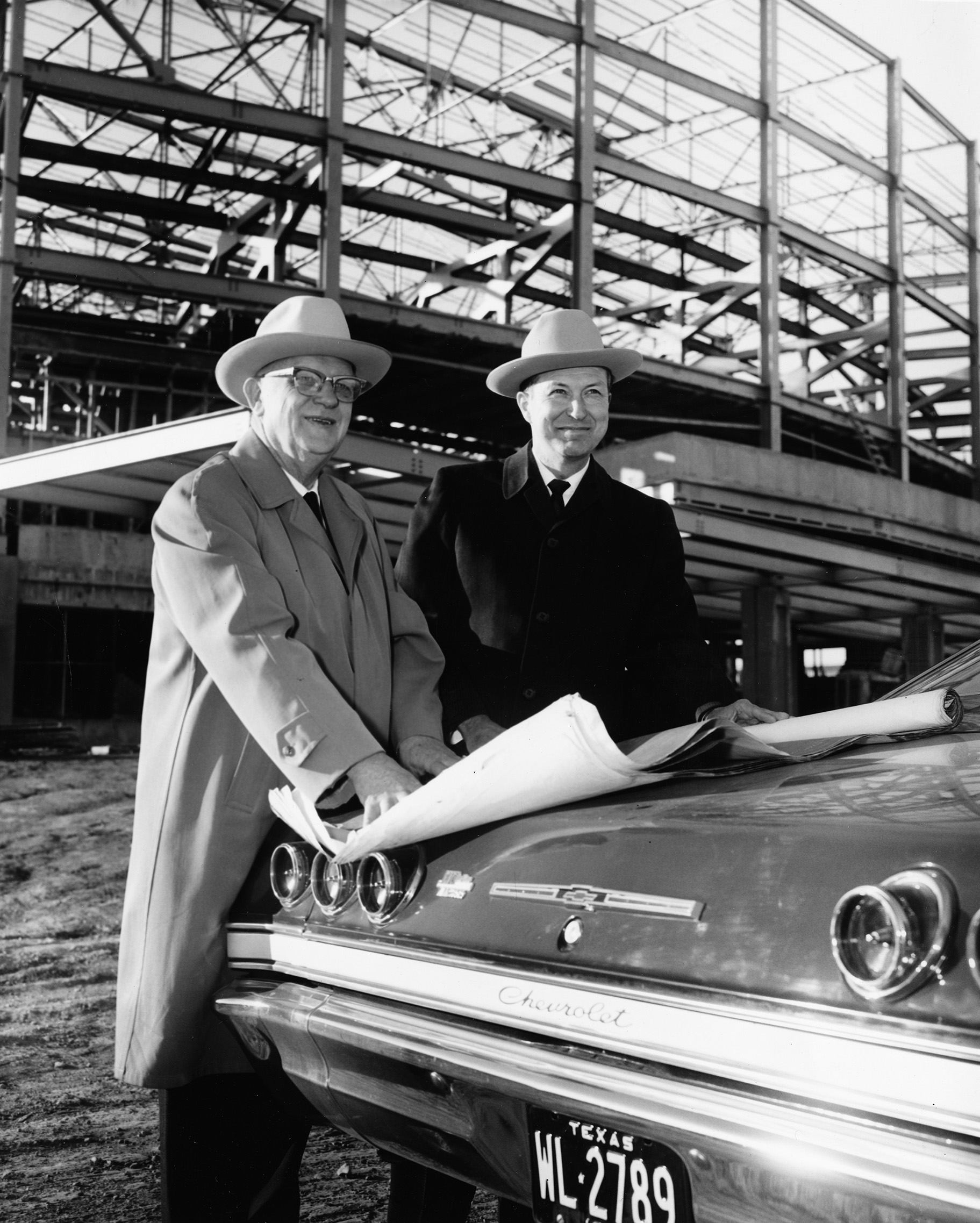 Arlington State College department of Business and Finance B.C. Barnes and A. S. C. President Jack R. Woolf review architect's plans on hood of car at construction site of auditorium (Texas Hall).